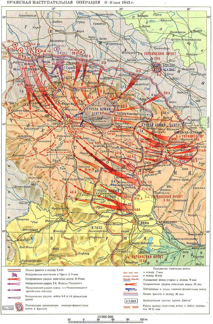 Prague Operation Map